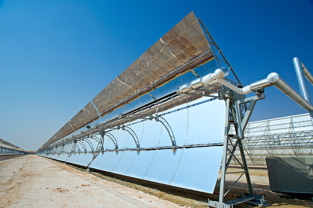 Shams 1 Parablic Trough in Abu Dhabi